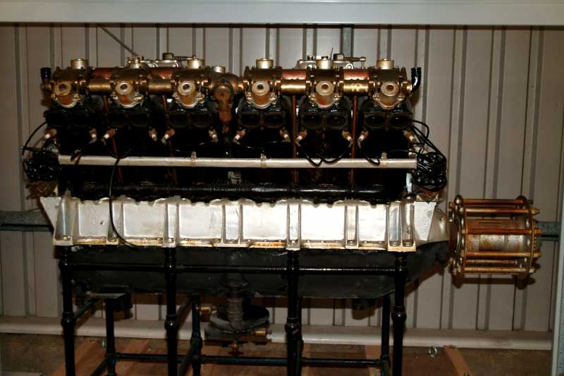 Fiat A.14 at the Royal Airforce Museum